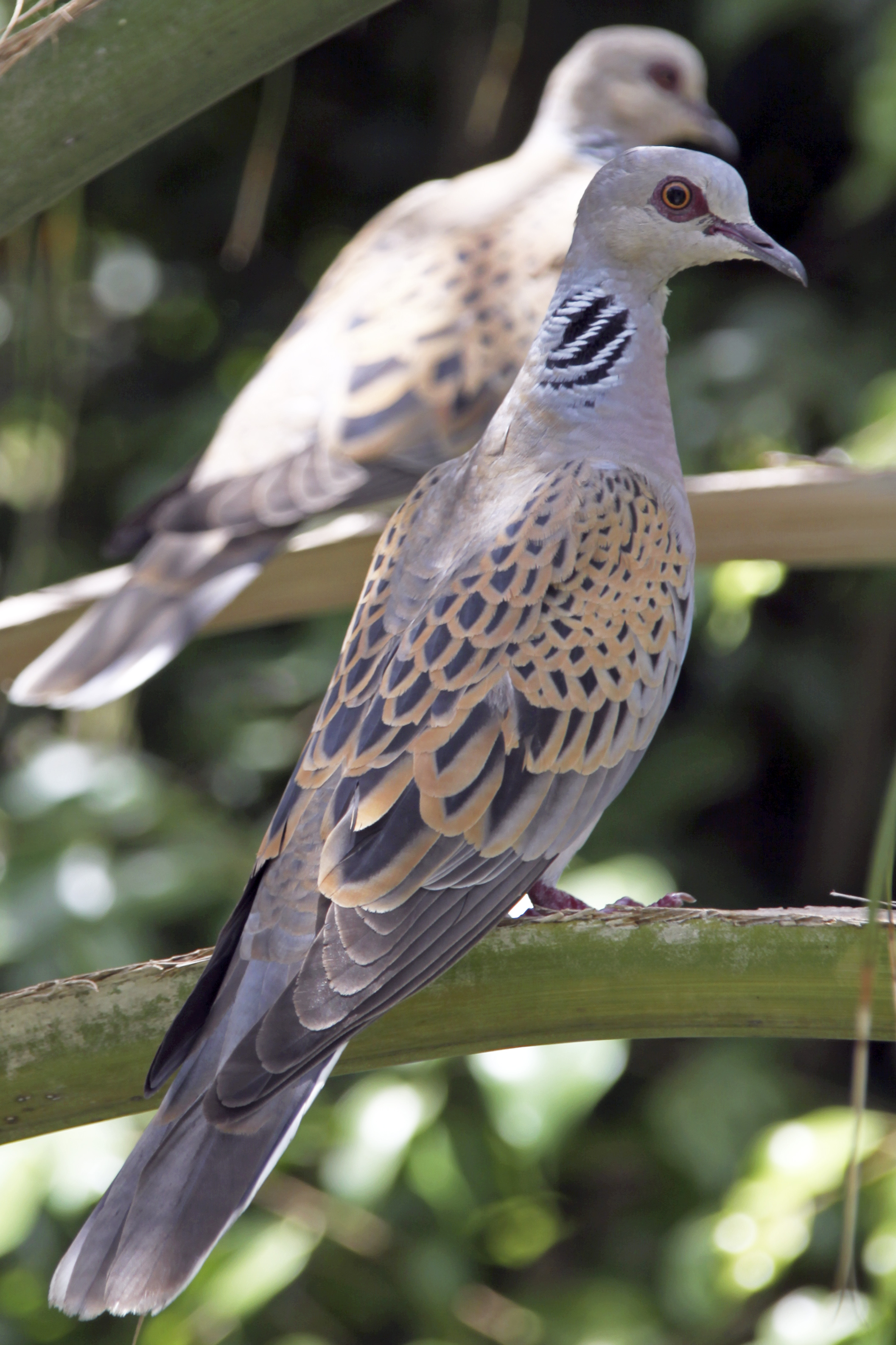 Turtle Dove, shot taken in Israel